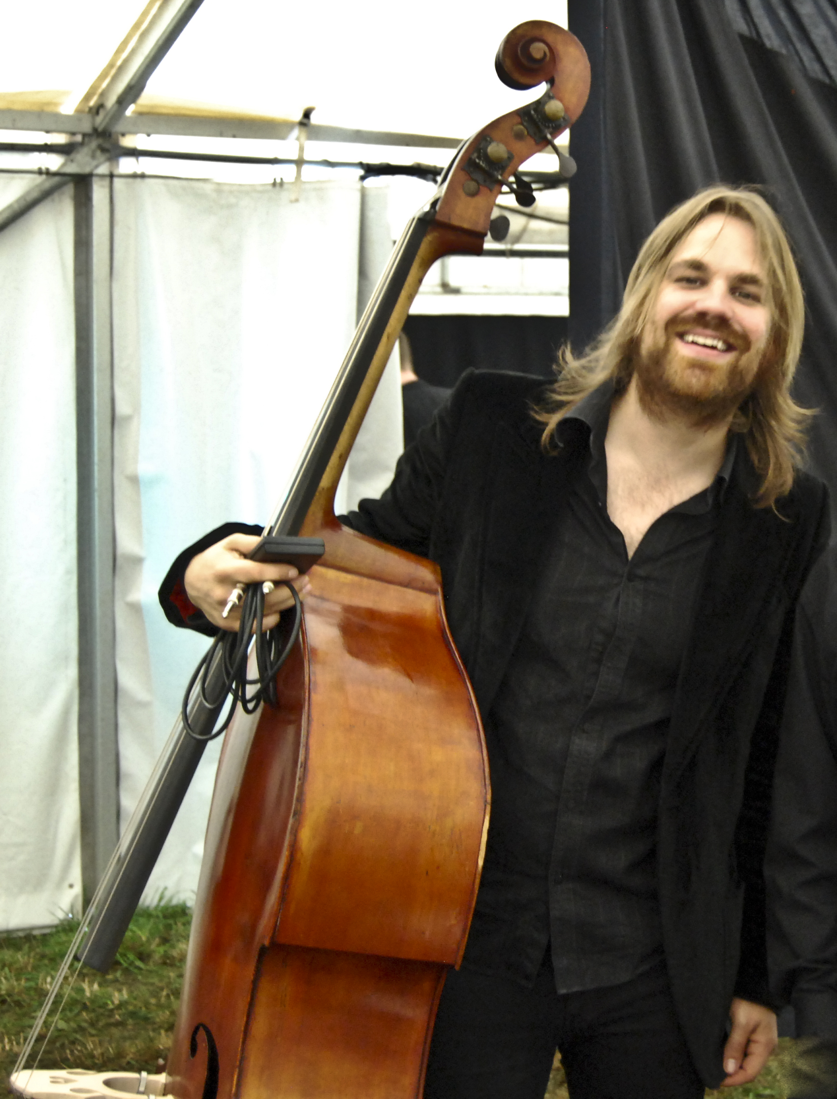 Phil Stack, the bass player from Thirsty Merc, and for James Morrison.